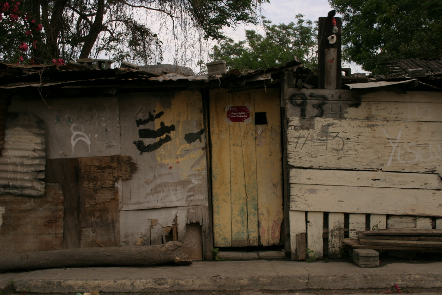 Inhabited housing on the city's north-west side.